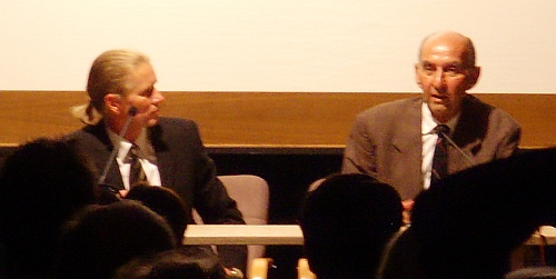 Dr. Alfred Jahn (right) in discussion with the scientific director of the Military History Museum of the Federal Armed Forces Dr. Gorch Pieken.